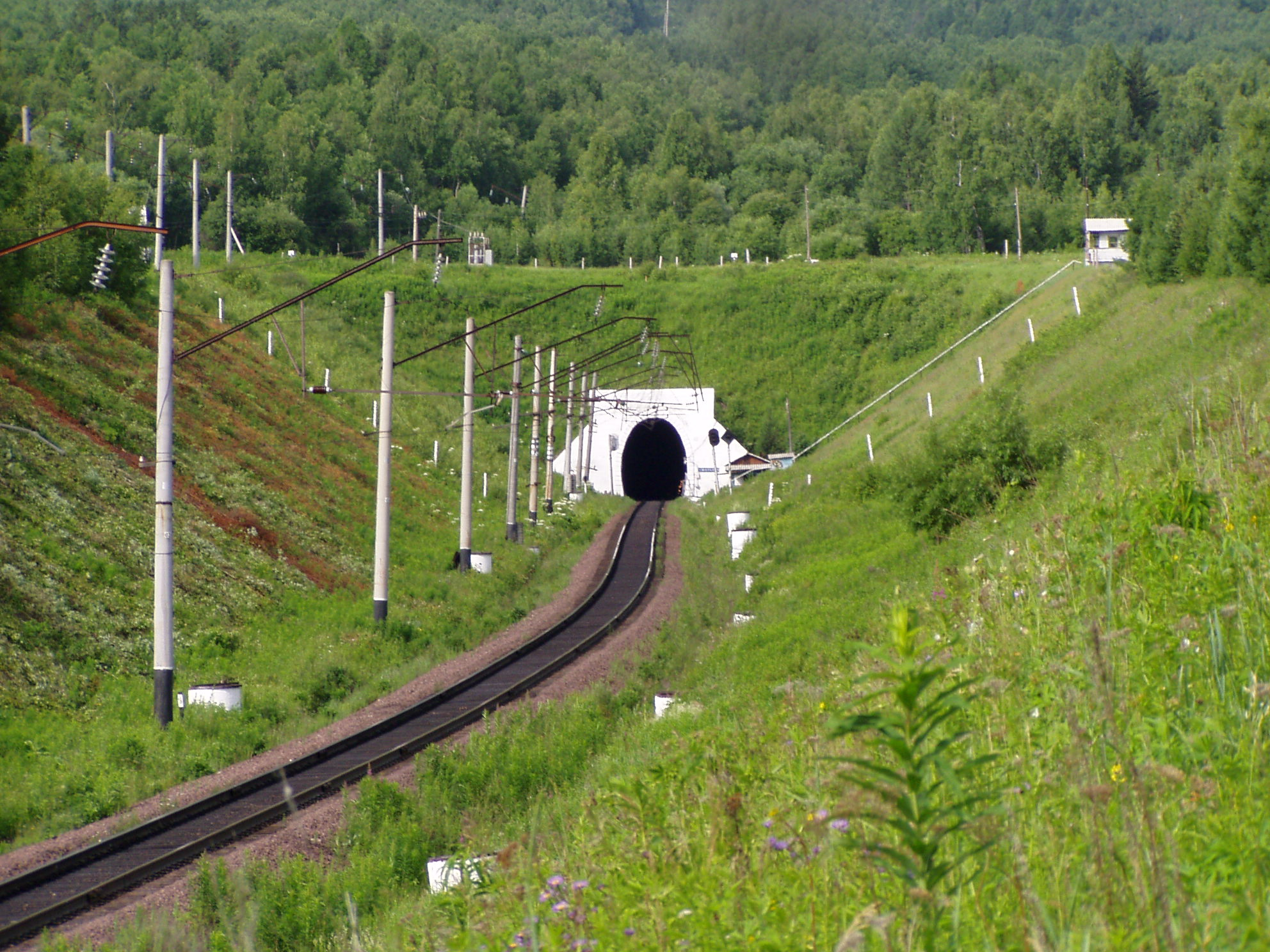 The first Mansky rail tunnel on Abakan-Tayshet rail line. The second tunnel is being built now (as of 2011).